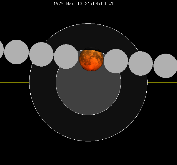 March 1979 lunar eclipse chart of moon's path through the earth's shadow. thumb